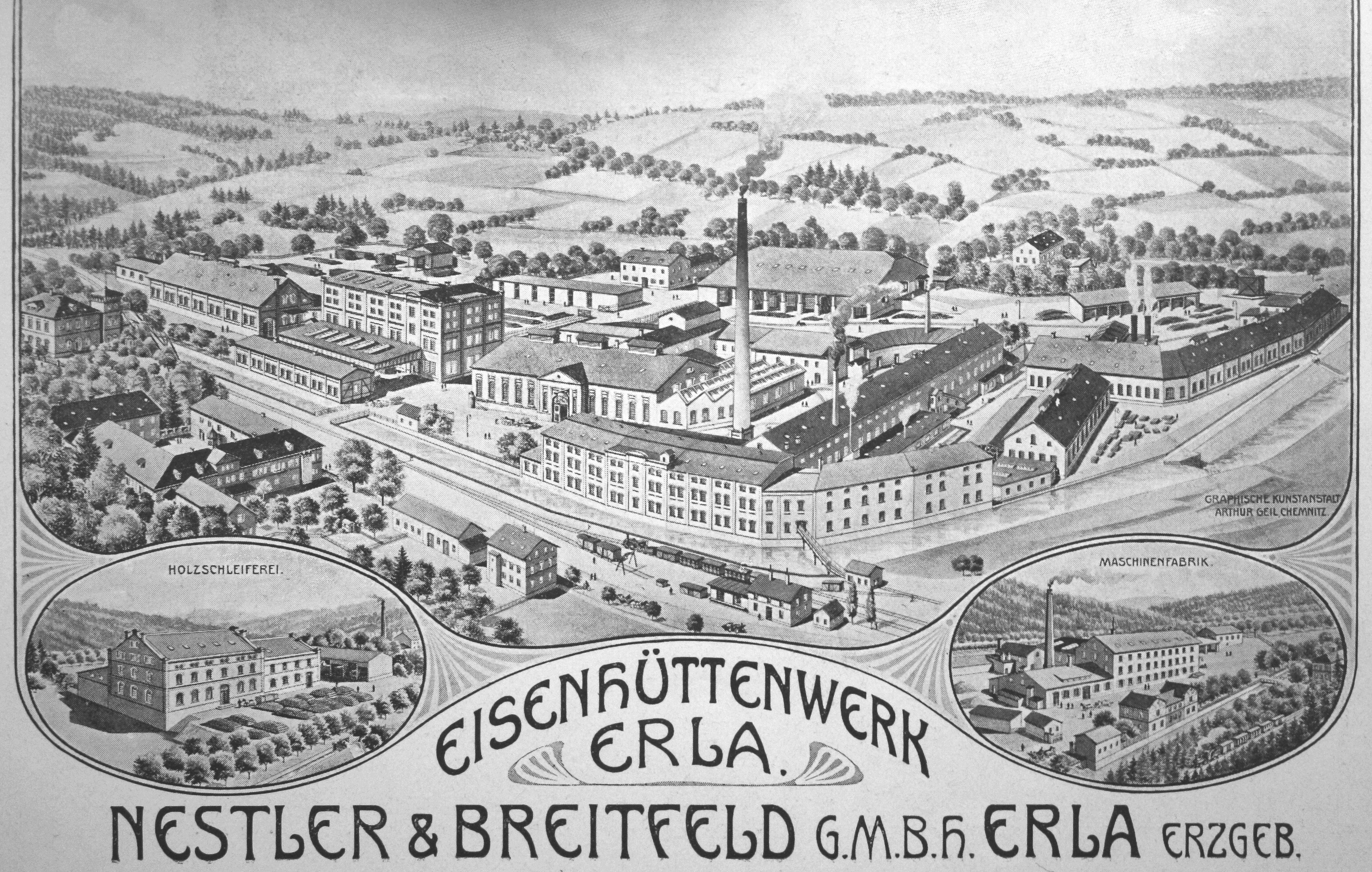 Eisenhüttenwerk Erla ca. 1910, view from SE